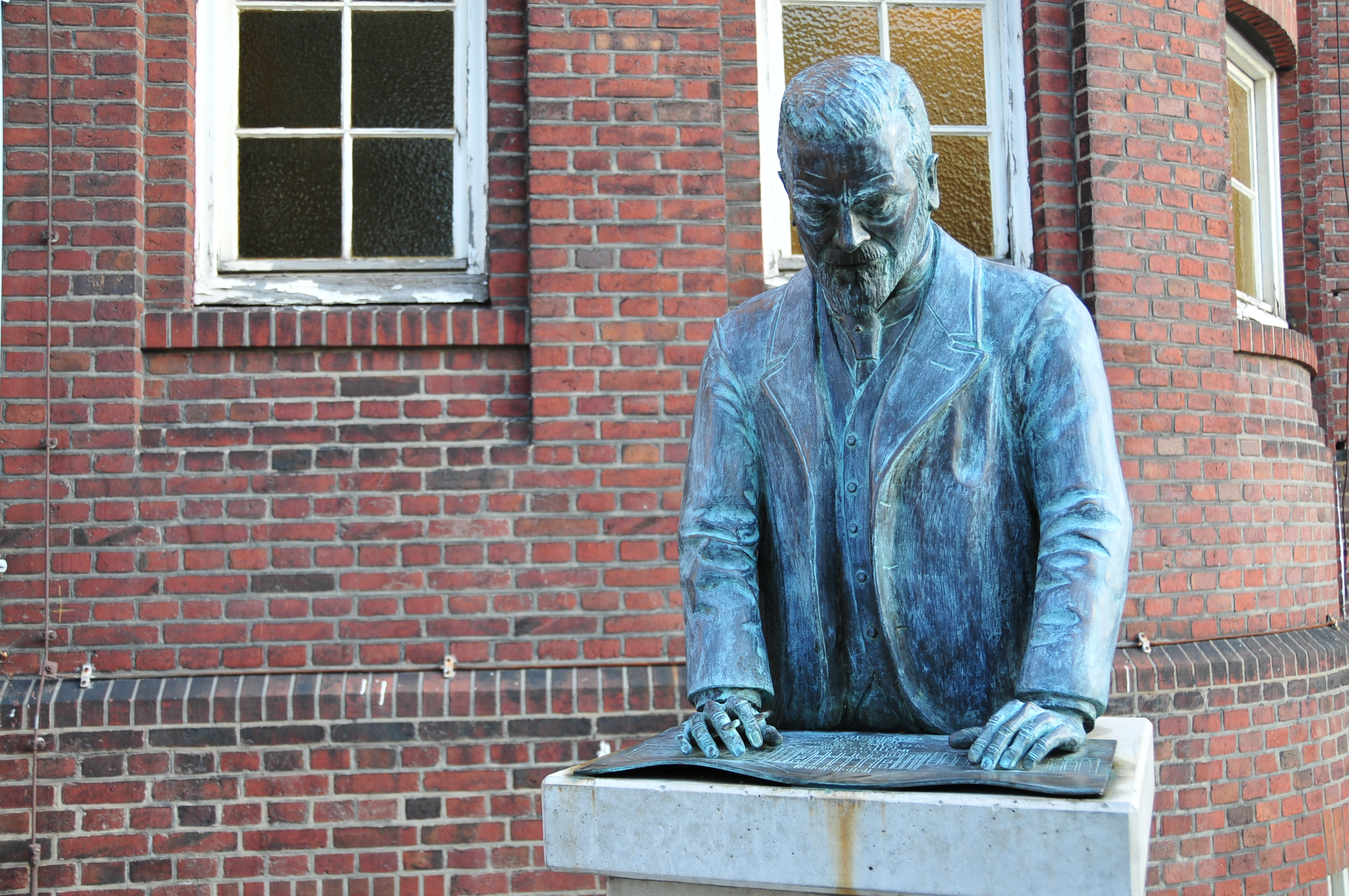 Bronze bust of architect Fritz Schumacher in the park of the University Medical Center Hamburg-Eppendorf (artist: Adolf-Friedrich Holstein)